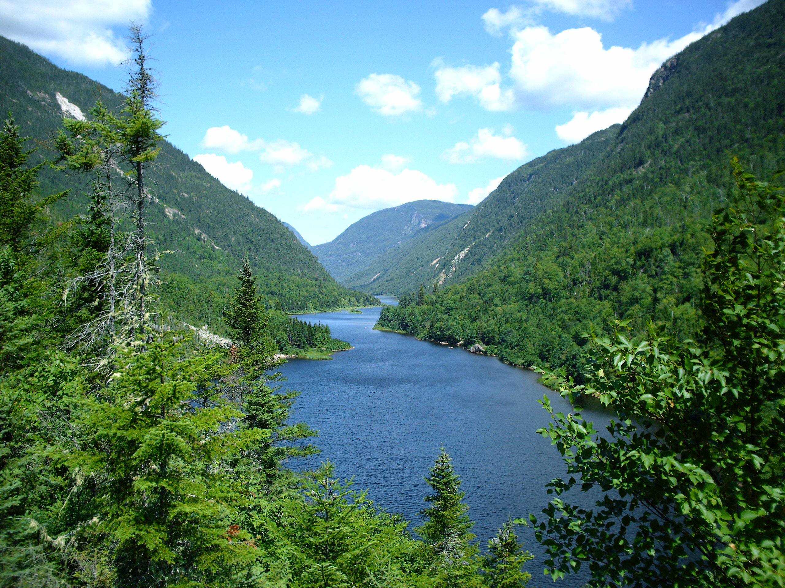 Author: David Touzin (dav2z) (3 Aug 2006), in the Hautes Gorges de la Rivière Malbaie.